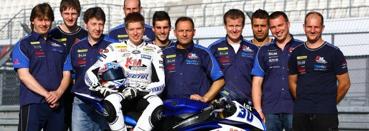 IDM team "Vector racing" with the winner of IDM championship 2011 Jesco Günther.